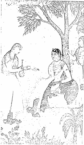 17th century painting of Jagat Gosaini